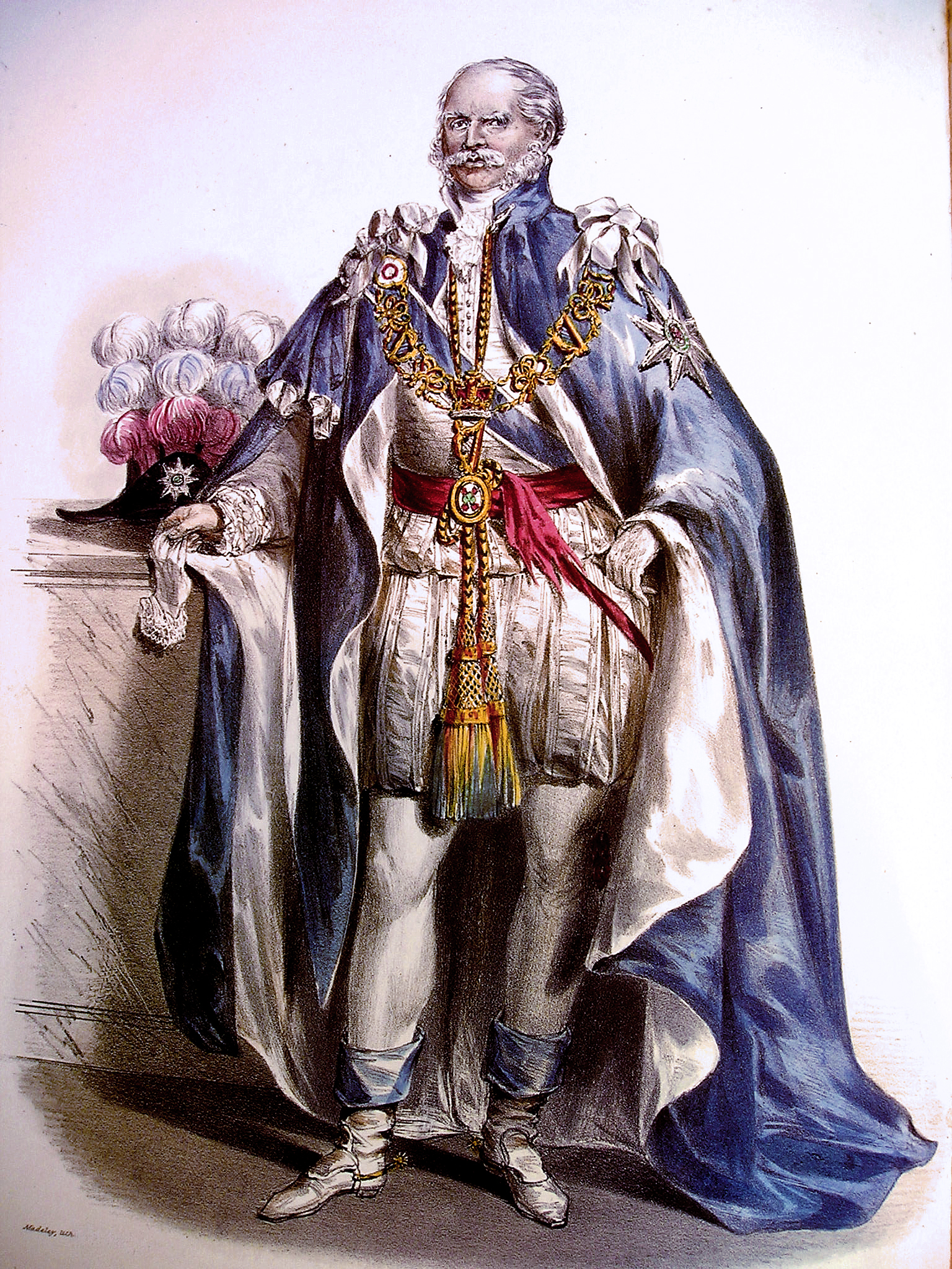 Ernest Augustus I, King of Hanover wearing the robes of a Knight Companion of the Order of St Patrick